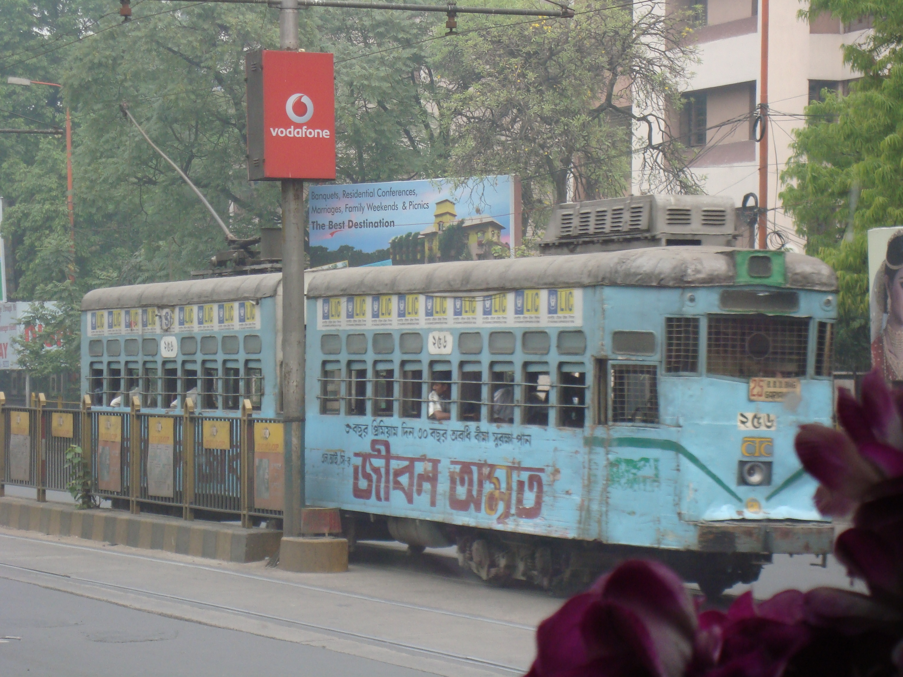 Trams in Calcutta